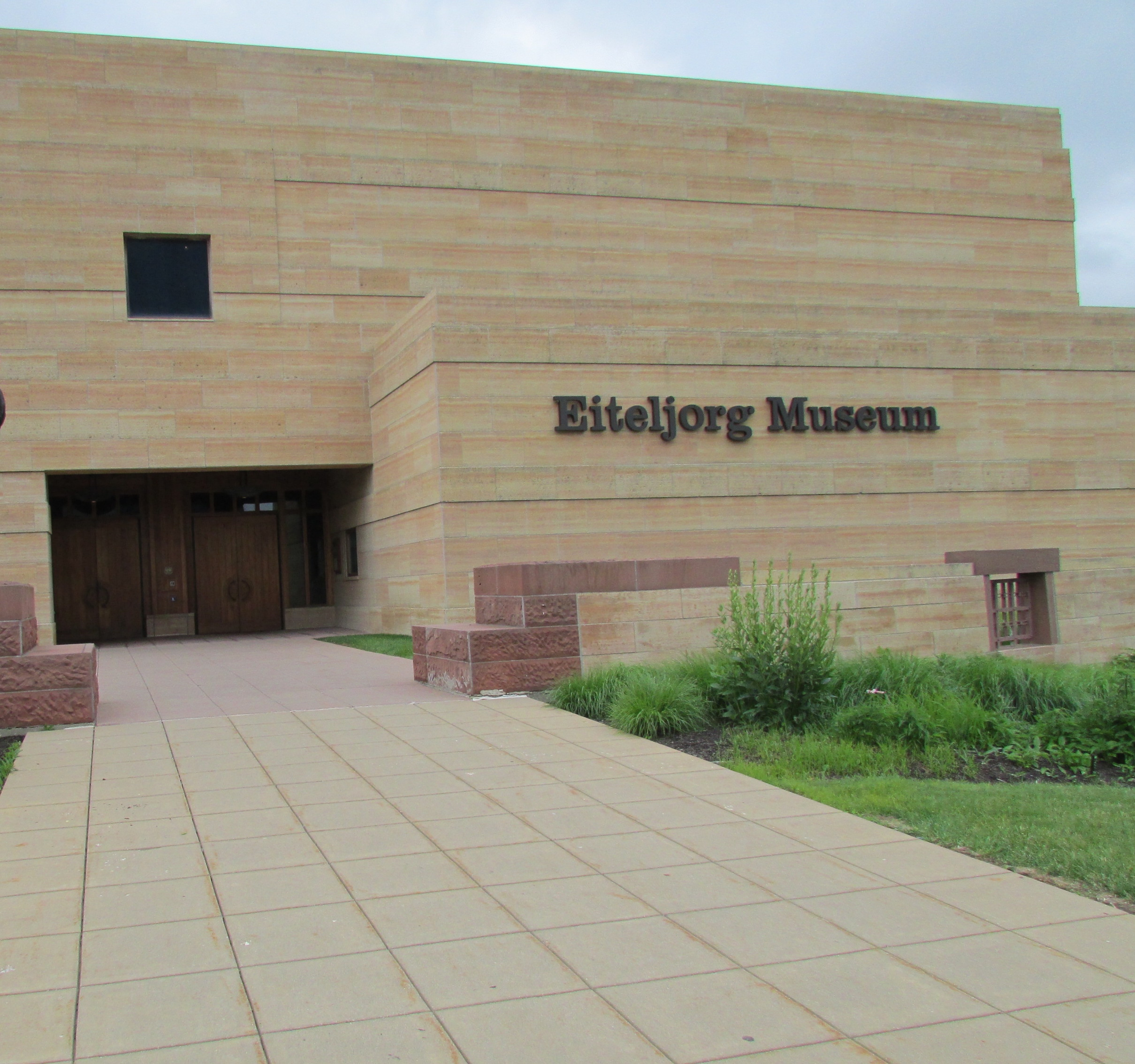 Main facade of the Eiteljorg Museum of American Indians